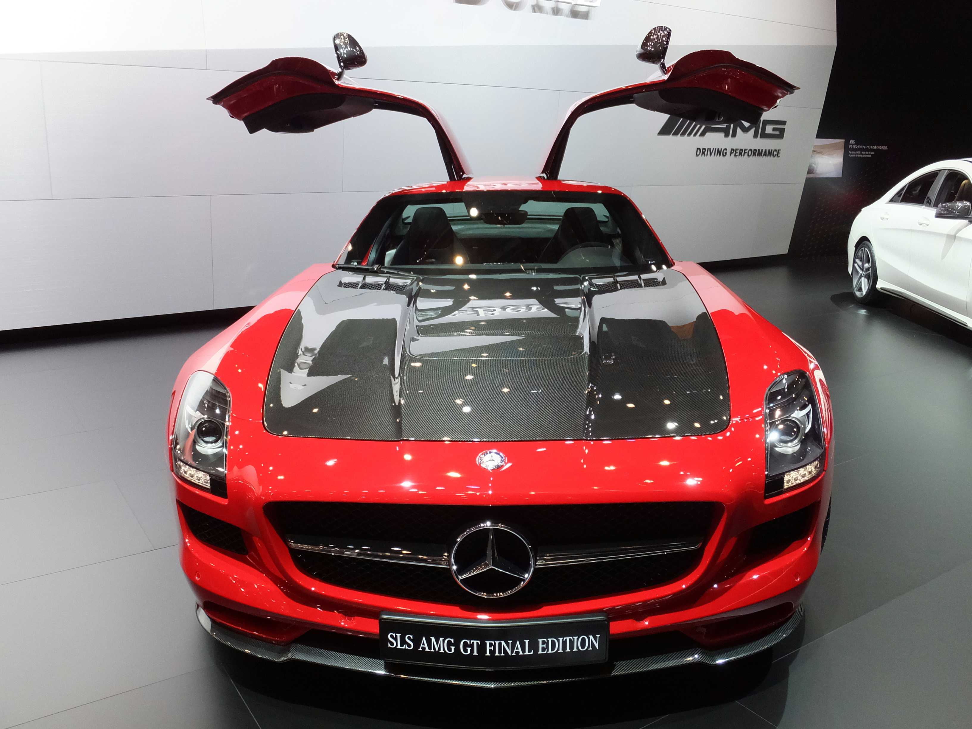 Mercedes-Benz, SLS AMG GT FINAL EDITION, Front, at Tokyo Motor Show 2013